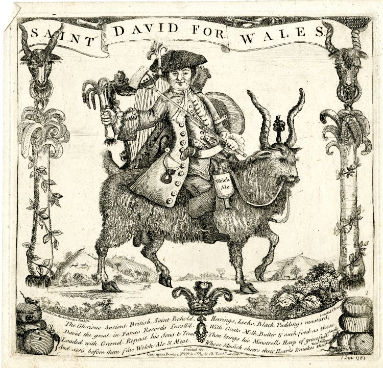 Saint David for Wales - with food; 1701 illustration. Artist not known.